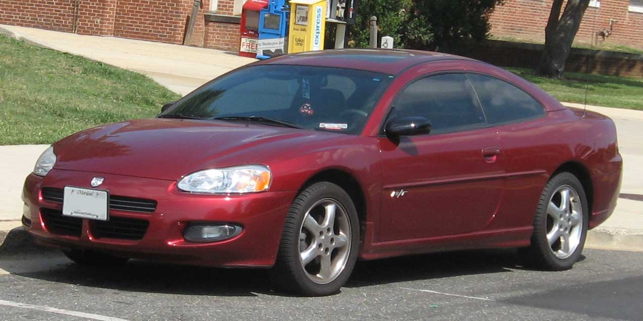 2001-2003 Dodge Stratus photographed in College Park, Maryland, USA.